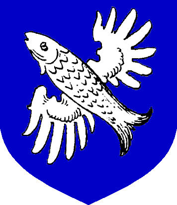 Coat of arms of the Brockdorff family